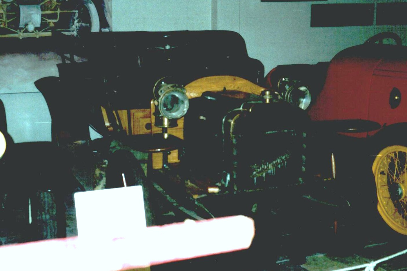 Salamanca 1904 (Country of origin: Spain)